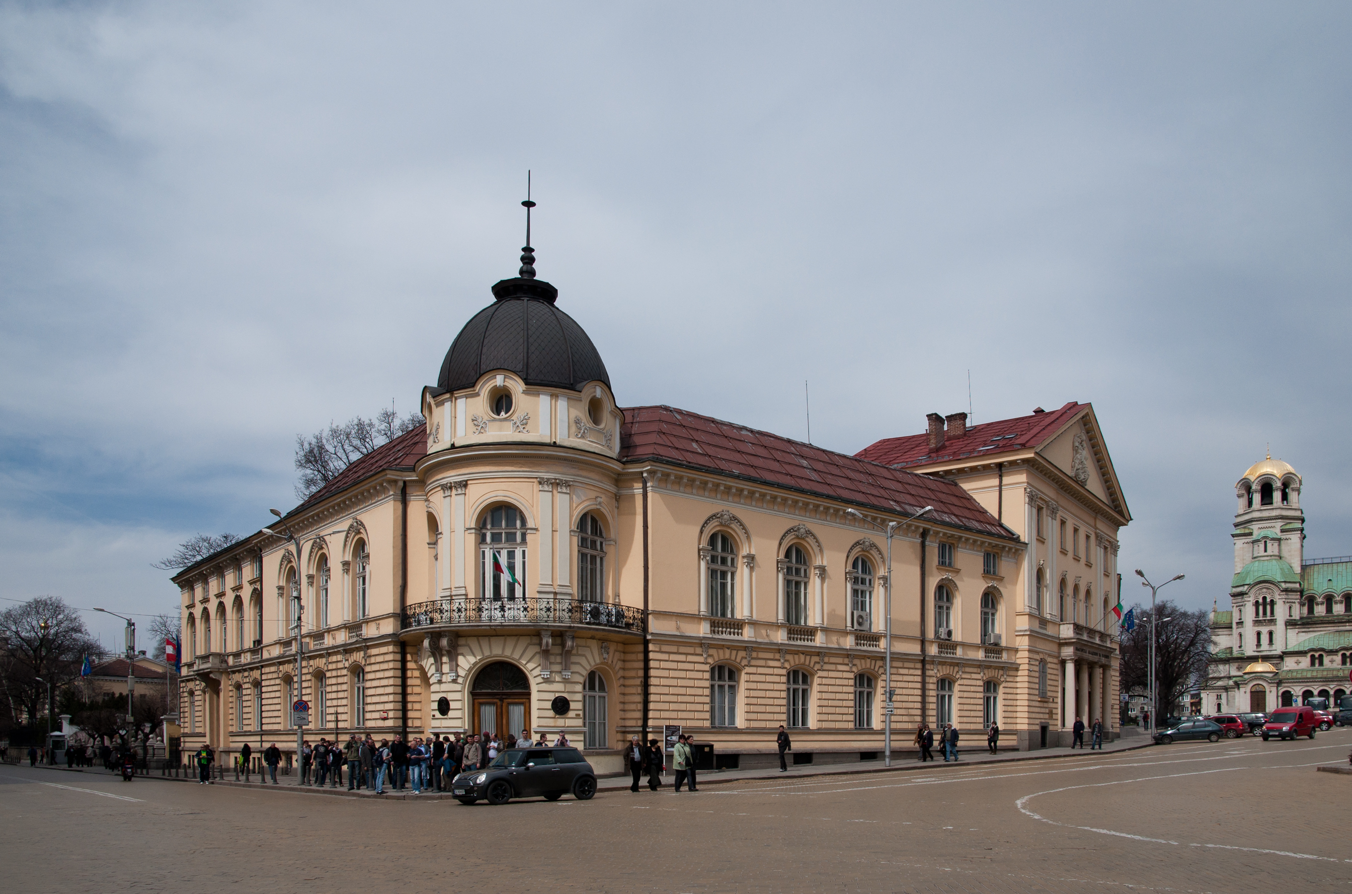 The Headquarters of the Bulgarian Academy of Sciences in Sofia.